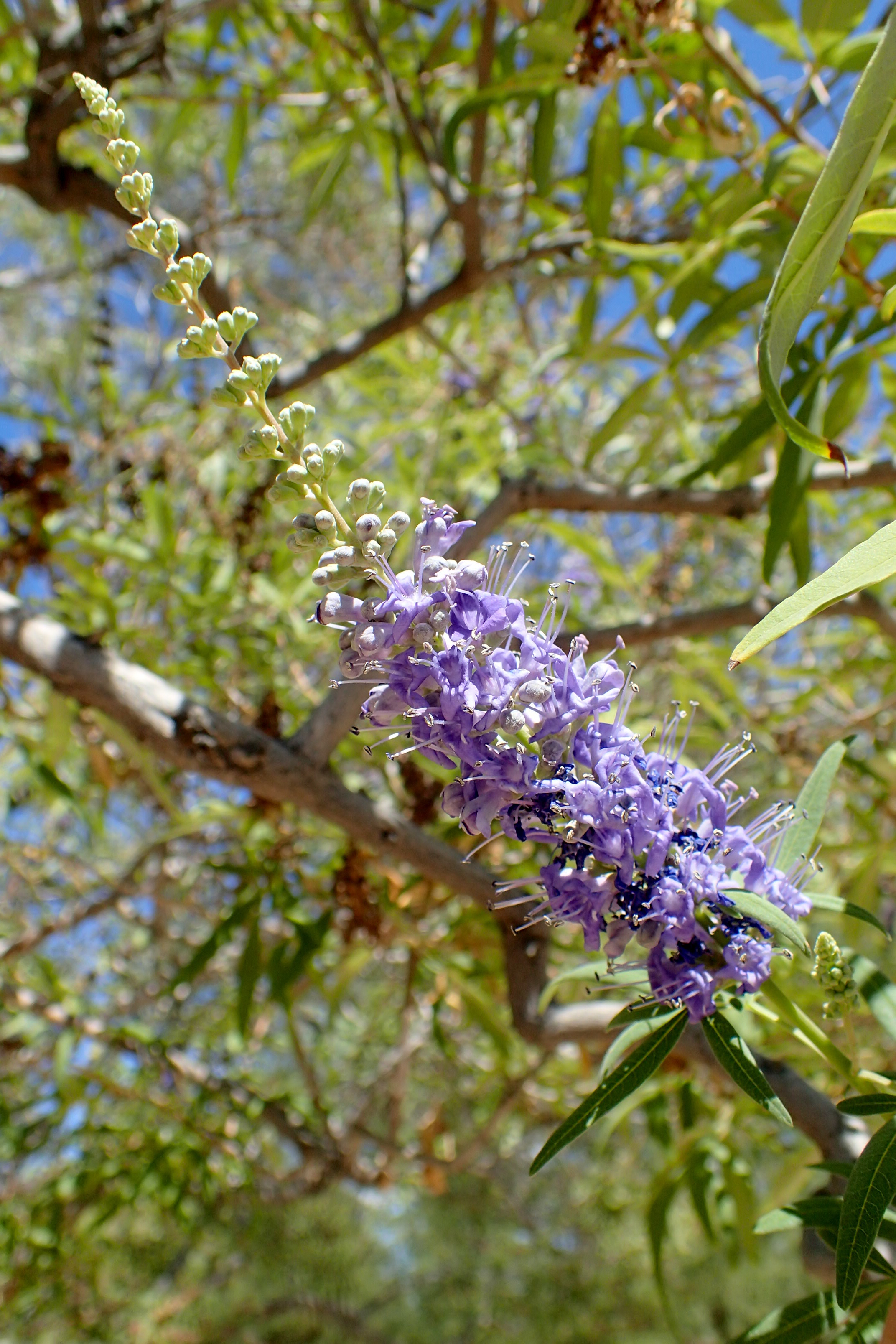 Vitex agnus-castus at Springs Preserve in Las Vegas